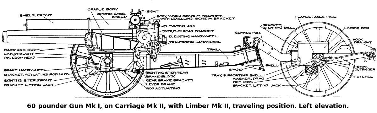 Diagram of British 60 pounder Mk I gun on Mk II carriage with Mk II limber, in traveling position. It demonstrates how the gun and breech was transported carried well forward on the Mk II carriage, i.e. it could not be moved rearwards (towards the limber) to equalise the weight distribution as with Mk I and Mk III carriage. Most of the gun's weight was carried on the gun carriage's wheels rather than the limber's. This diagram depicts a gun in US Army service but is also indicative of British army service. NOTE : Gun barrel is depicted truncated.